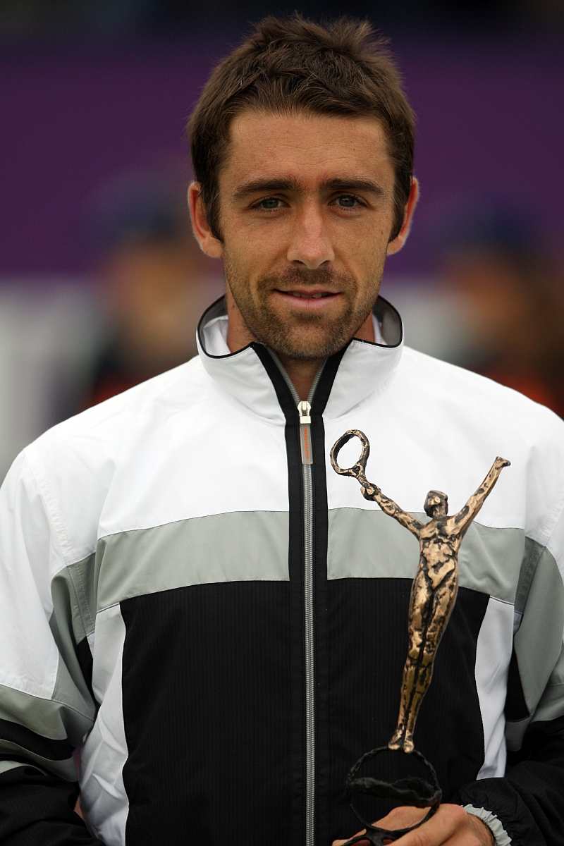 Benjamin Becker - Ordina Open 2009